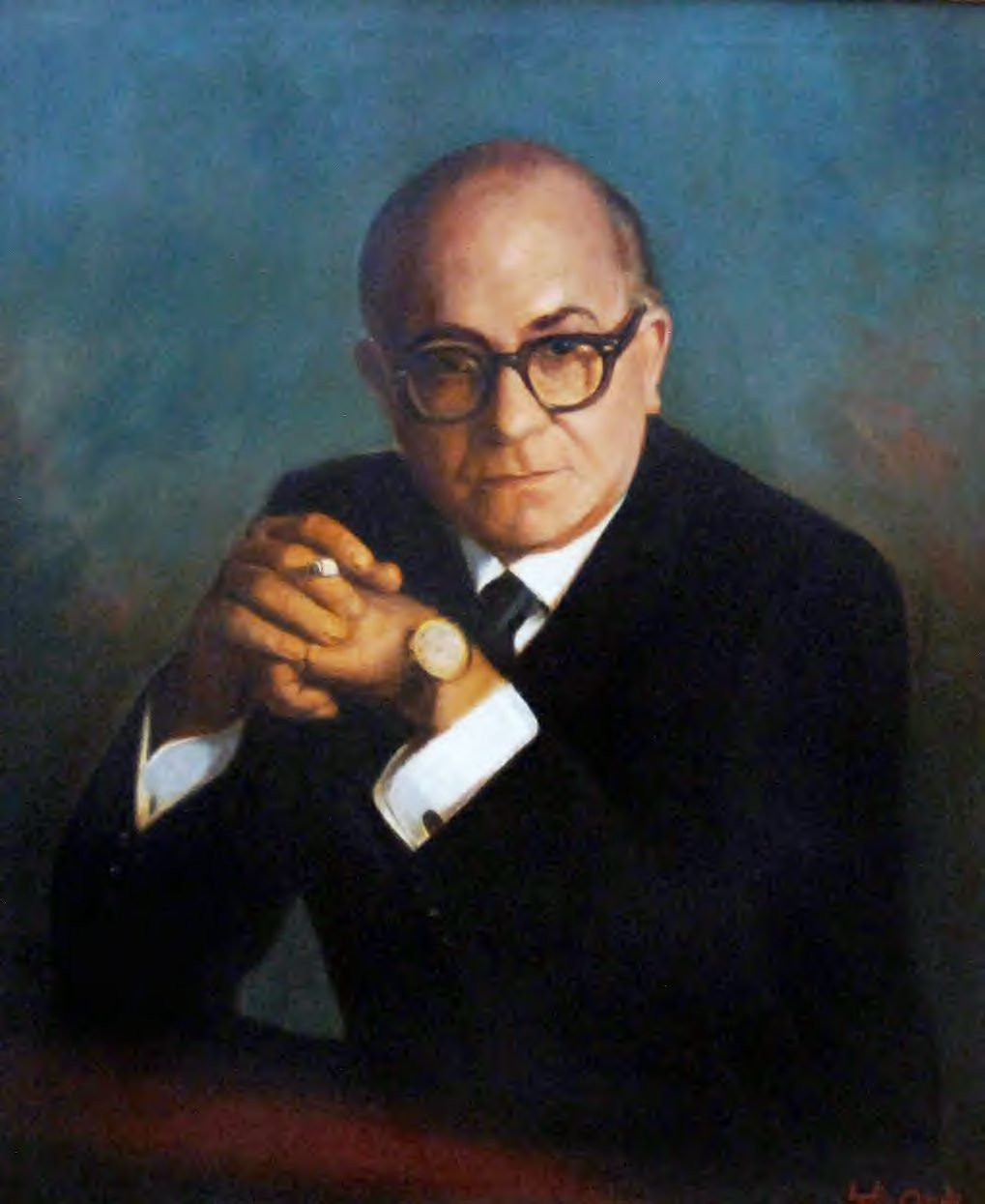 Painting of the Honorable Samuel R. Quiñones, former Secretary of State of Puerto Rico.